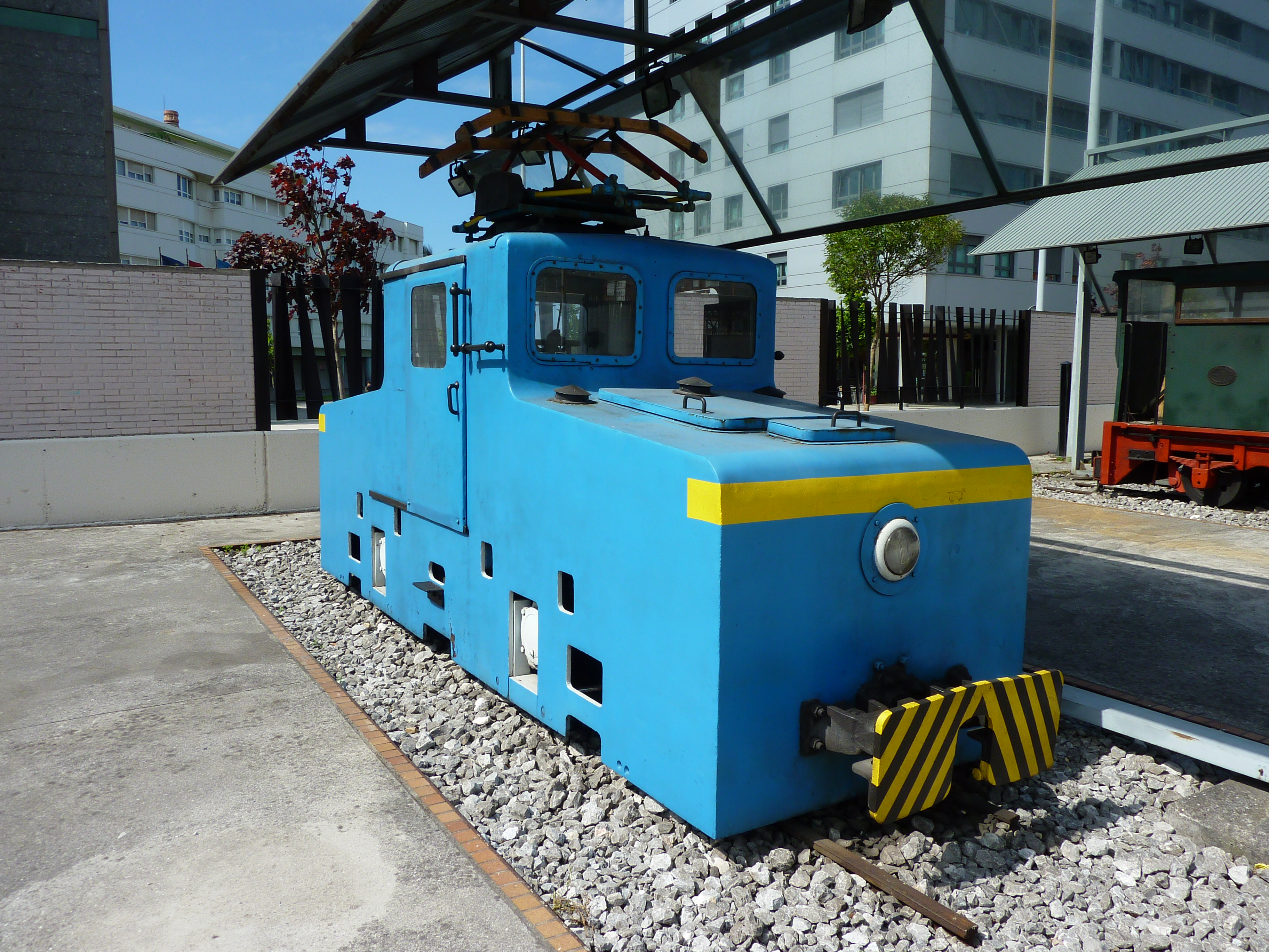 Electric locomotive DUFEL 2000, in Asturian Railway Museum, Gijón, Asturias, Spain